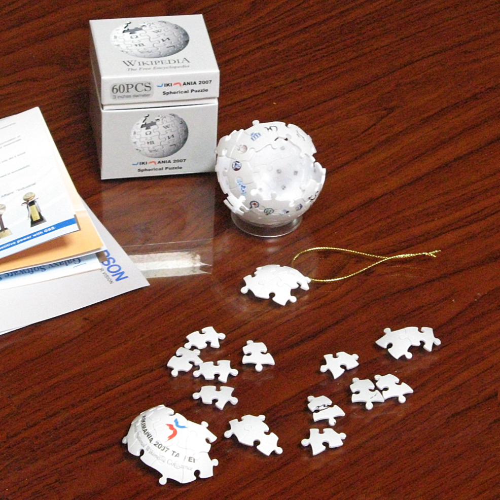 Wikimania 2007 puzzle ball